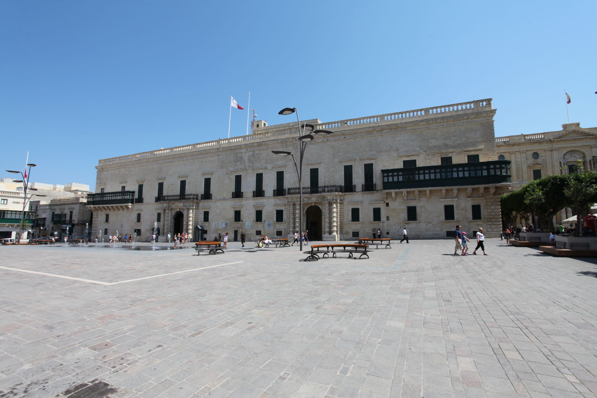 Valletta, Grandmasters' Palace